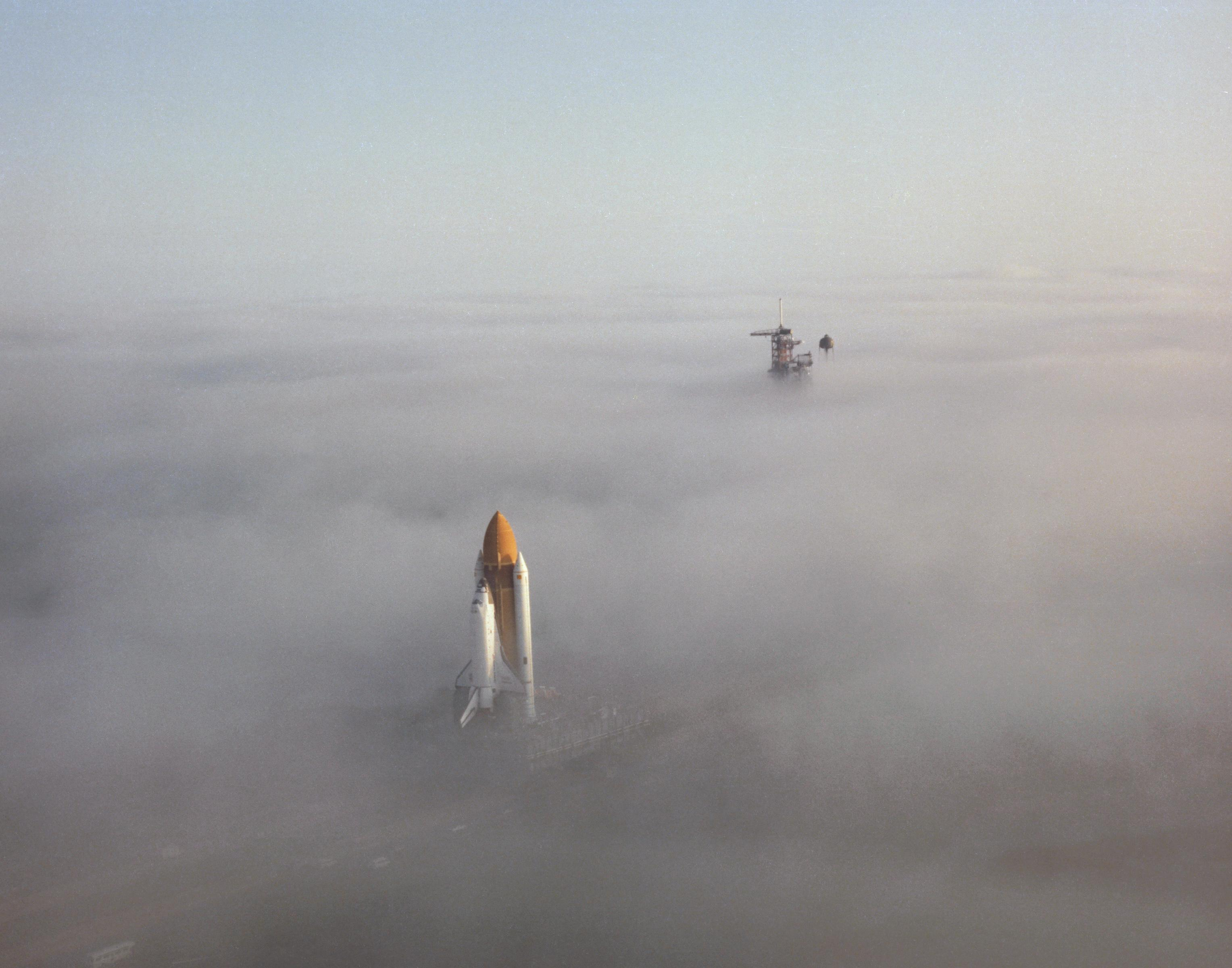 The Space Shuttle Challenger presents a surrealistic impression as it moves through the fog on its way down the 3 ½-mile crawlerway enroute to Launch Pad 39A. The fully assembled Shuttle, weighing 12,000 pounds less than its predecessor Columbia, completed the trip from the Vehicle Assembly Building in shortly over 6 hours. The sixth Shuttle flight, which will be the first for the Challenger, is scheduled for no earlier than January 24, 1983.